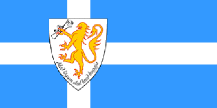 Flag of Forvik